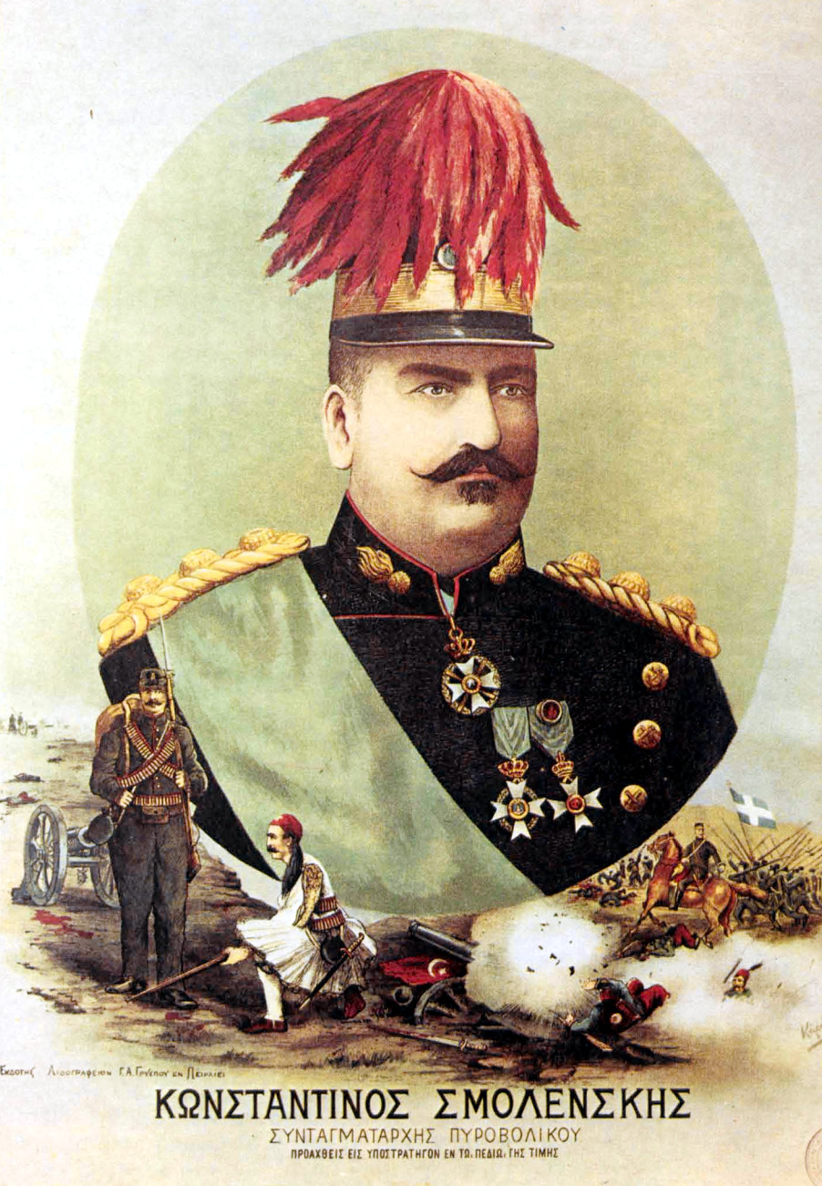 Konstantinos Smolenskis